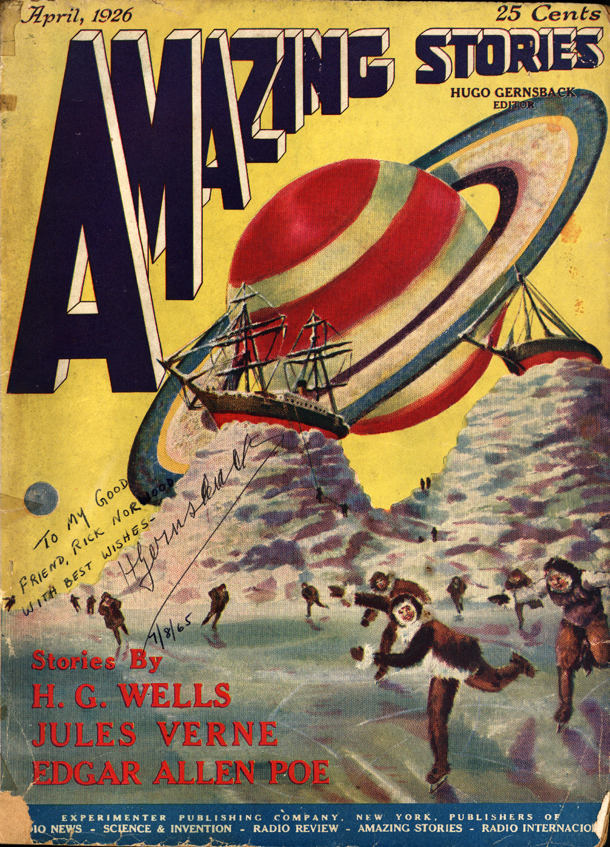 Amazing Stories, April 1926. Volume 1, Number 1 Published by Experimenter Publishing Company Inc. Hugo Gernsback, President; Sidney Gernsback, Treasure. Inscription on the cover To My Good Friend, Rick Norwood, With Best Wishes. H Gernsback 7/8/65 Scan of cover provided by Rick Norwood in January 2006. Works copyrighted before 1964 had to have the copyright renewed sometime in the 28th year. If the copyright was not renewed the work is in the public domain. It is best to search 6 months before and after the required year. Some magazines are published the month before the cover date and some registrations may be delayed for a few months. This 1926 issue of Amazing Stories would have to be renewed in 1953 or 1954. Online page scans of the Catalog of Copyright Entries, published by the US Copyright Office can be found here. The search of the Renewals for Periodicals for 1952, 1953, 1954 and 1955 show no renewal entries for Amazing Stories. Experimenter Publishing Company owned Amazing Stories in 1926 and Ziff-Davis Publishing owned it from 1938 to 1965. Based on searches of the copyright records, Ziff-Davis Publishing did not make it a practice to renew magazine copyrights. One website, has a note that Frank R. Paul's estate claims a copyright on his work. Efforts to contact the estate have not been answered. A search of the copyright records shows no copyrights or renewals by Paul on his early work. Frank R. Paul was an employee of Hugo Gernsback when these covers were created. Paul had to get Gernsback's approval on the proposed artwork for each cover. These early covers are a work for hire. The copyright on the magazine was not renewed and it is in the public domain.